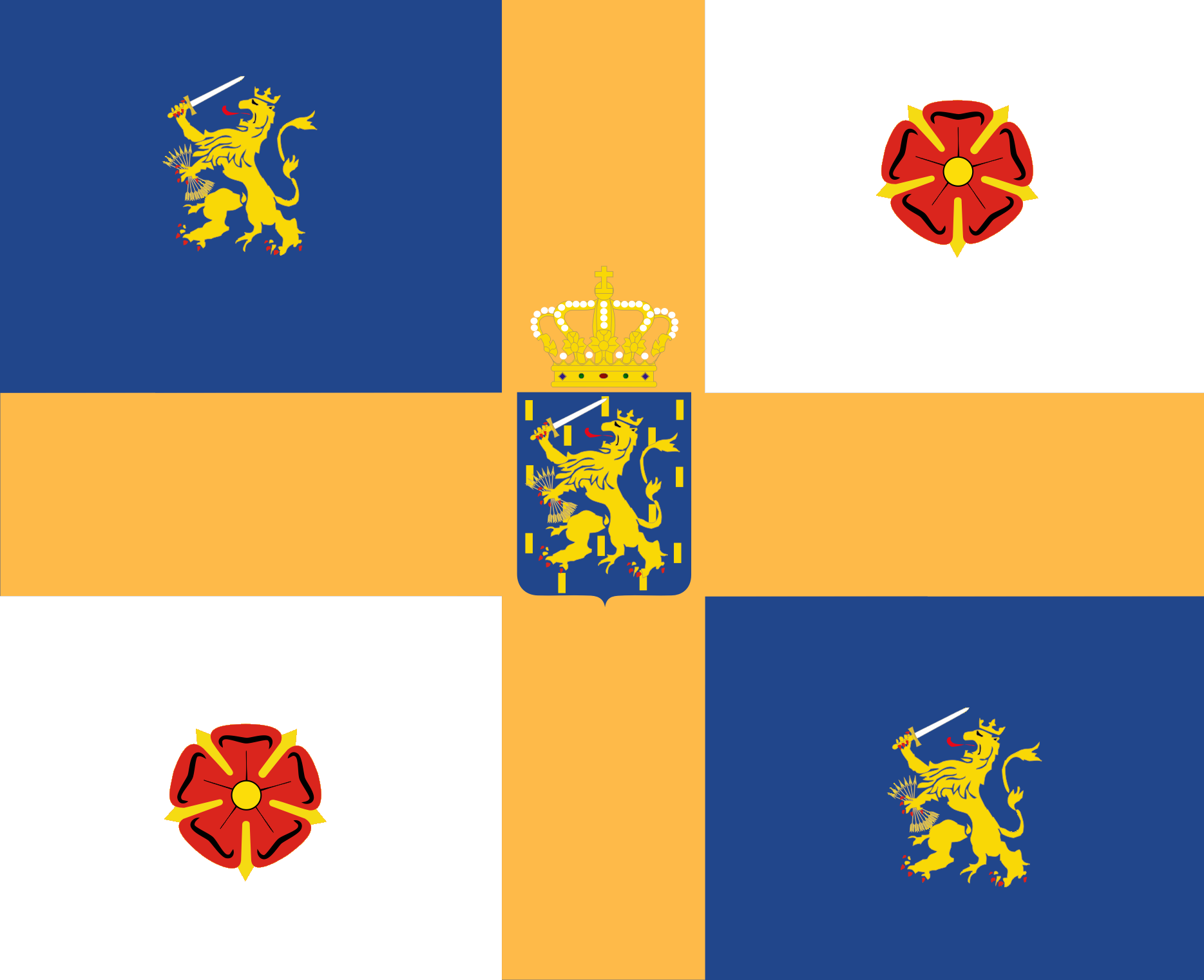 Standard of Bernhard of Lippe-Biesterfeld.